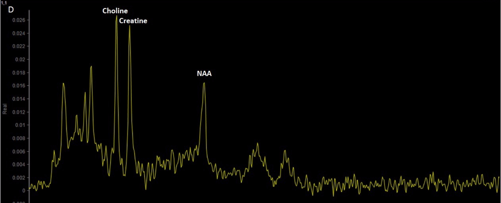 High-grade diffuse intrinsic pontine glioma in a 16-year-old female. Magnetic resonance spectroscopy showing elevated choline and creatine peaks with a decreased n-acetylaspartate (NAA) peak.